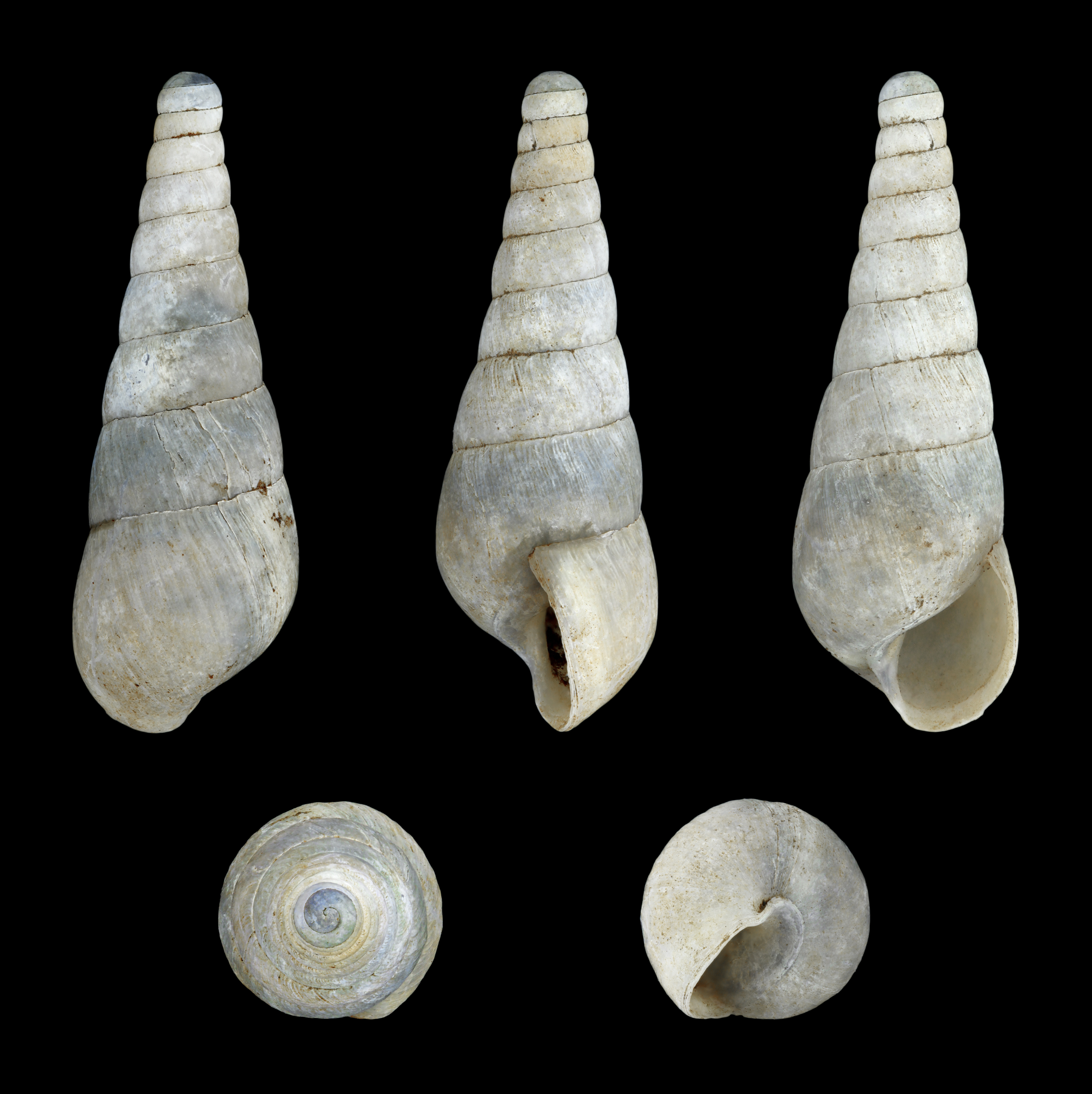 Decollate Snail, juvenile with protoconch; Length 2.4 cm; Originating from the Jardin de Orquideas de Sitio Litre, Puerto de la Cruz, Tenerife, Canary Islands, Spain. 28°24′48.75″N 16°32′40.21″W / 28.4135417°N 16.5445028°W;; Shell of own collection, therefore not geocoded. Dorsal, lateral (right side), ventral, back, and front view.